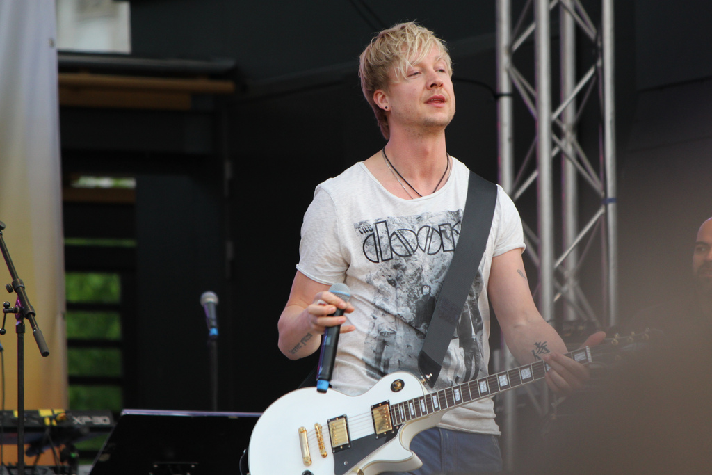 Sunrise Avenue's singer Samu Haber on May 2011 in Finland.